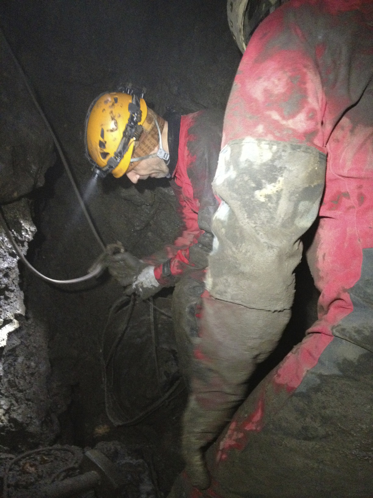 Speleologists belonging to the "Arbeitskreis Kluterthöhle" group removing boulders from a vertical cave in Gummersbach, Germany.